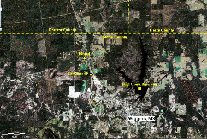 Aerial view of Bond community located in Stone County, Mississippi, USA.